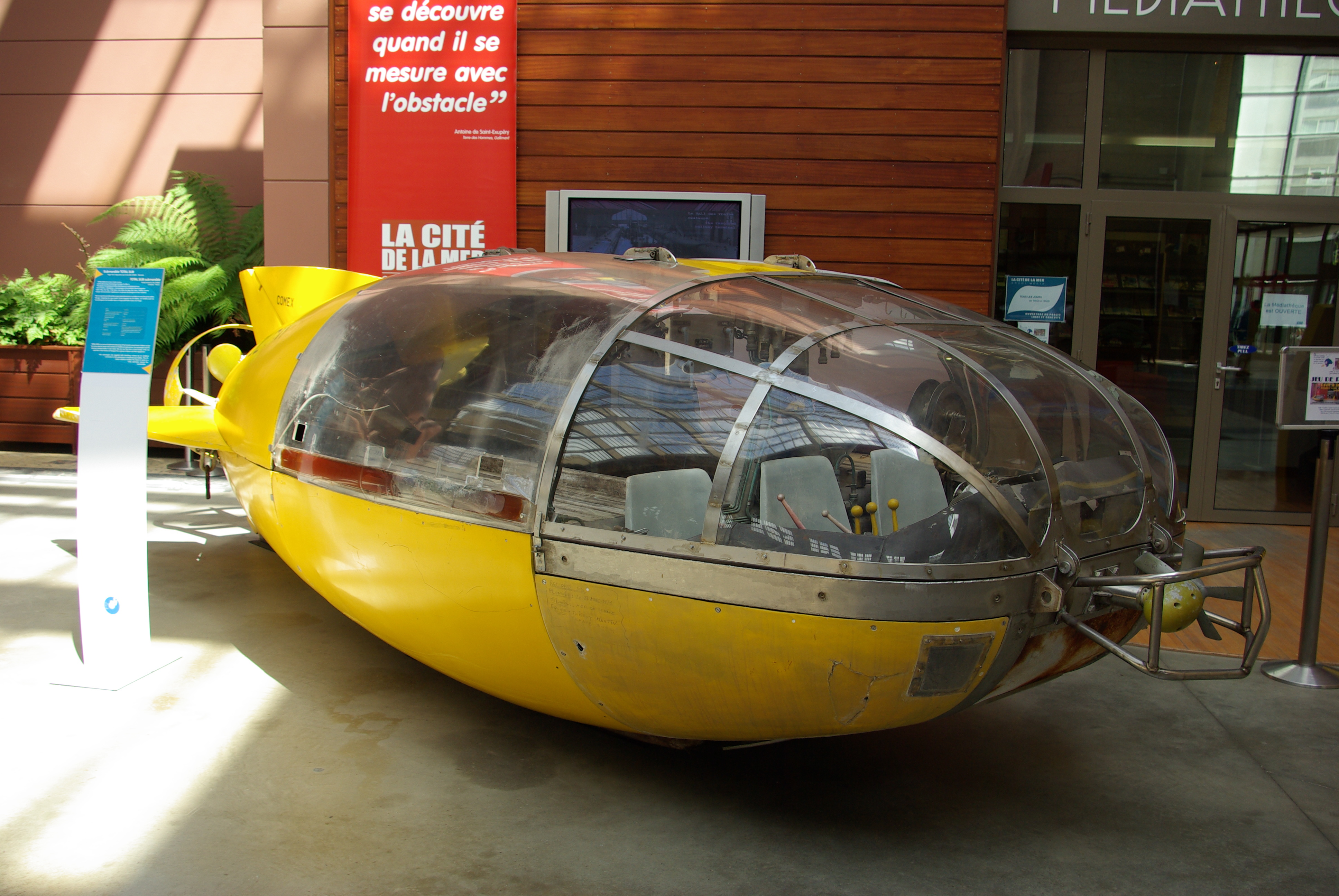 The submersible TOTAL SUB (1967) displayed in the Cité de la Mer in Cherbourg.